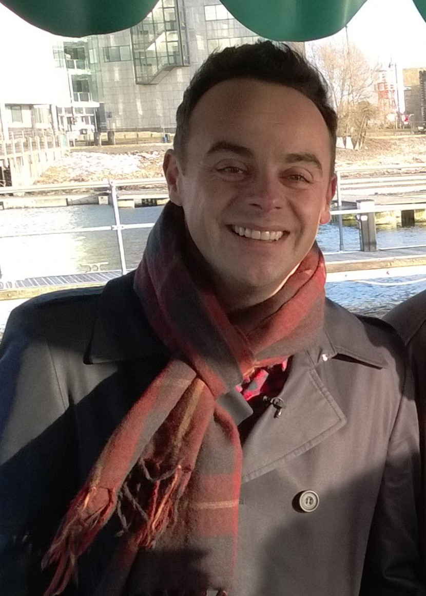 Cropped image of Anthony McPartlin (of Ant and Dec) in Cardiff Bay.